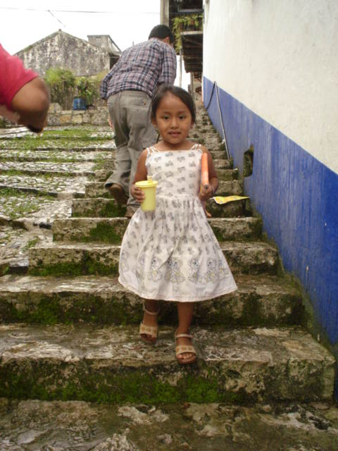 Una niña en Cuetzalan, Sierra Norte de Puebla (México)